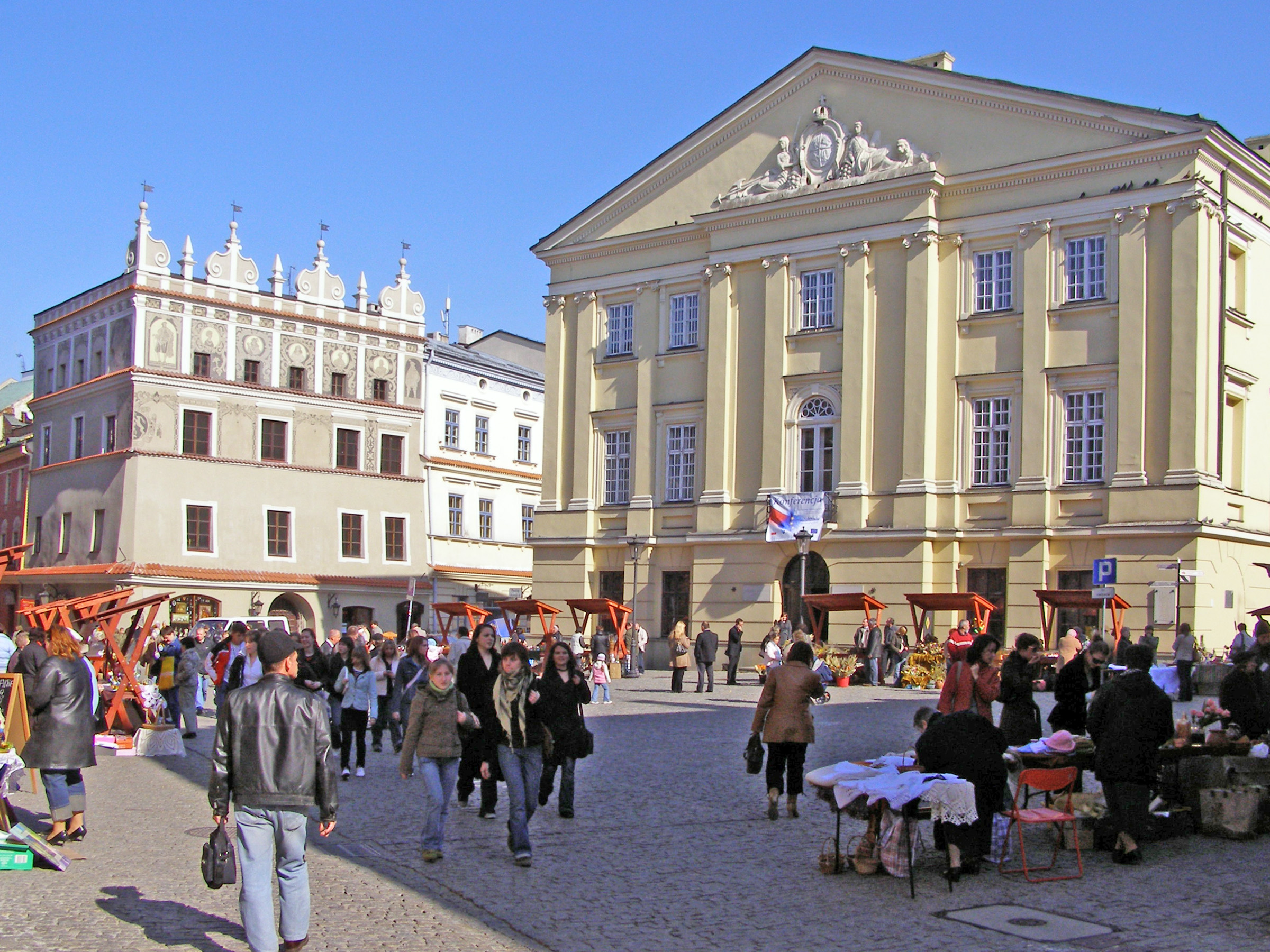 Old Town in Lublin - Marketplace, the Crown Tribunal.